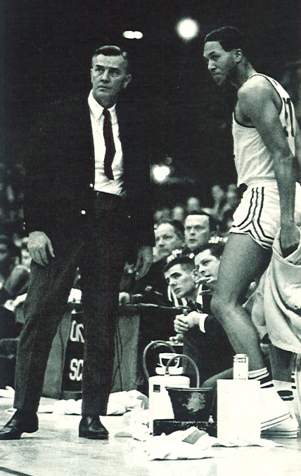 Ralph Miller (left) with Huston Breedlove